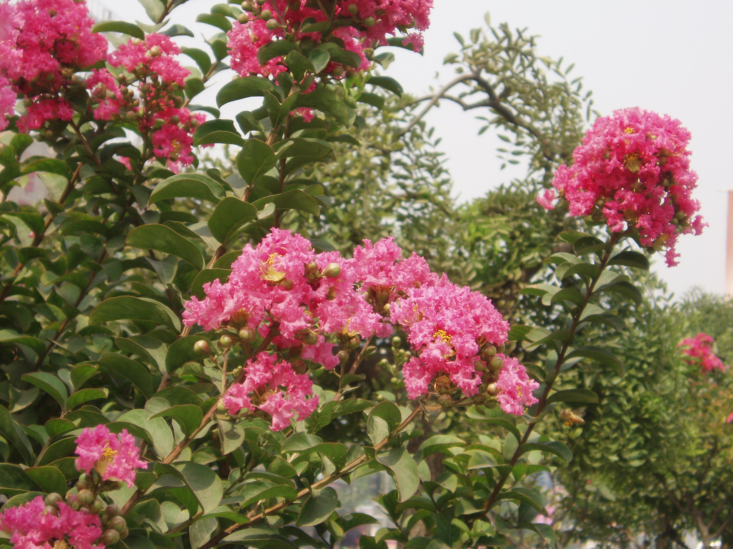 Crape myrtle flowers